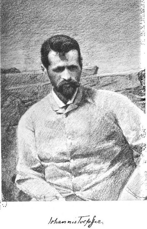 Johannes Toepffer (1860—1895), German historian